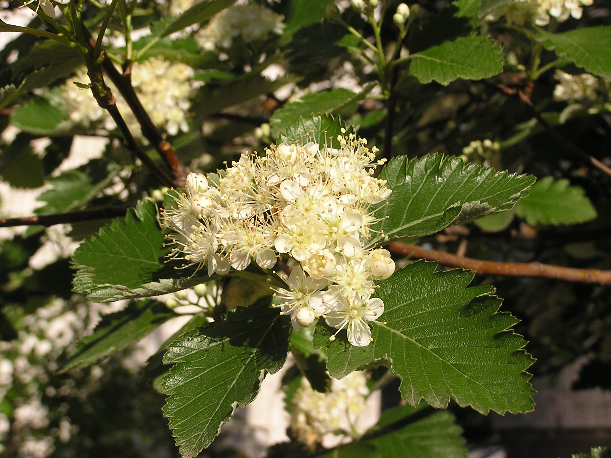 Plant